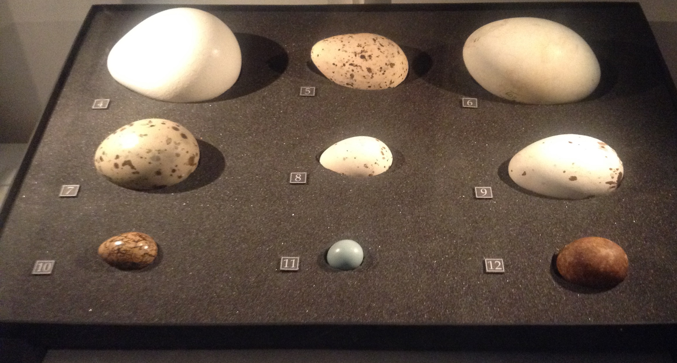 Beaty Biodiversity Museum LocationVancouver, British Columbia, CanadaCoordinates49° 15′ 48.96″ N, 123° 15′ 05.04″ W Established2010Web pageBeaty Biodiversity MuseumAuthority control : Q4120770 institution QS:P195,Q4120770 4. Aptenodytes patagonicus; 5. Alca torda; 6. Cygnus atratus; 7. Larus glaucescens; 8. Anous stolidus; 9. Coragyps atratus; 10. ?; 11. Clamator jacobinus 12. Falco tinnunculus